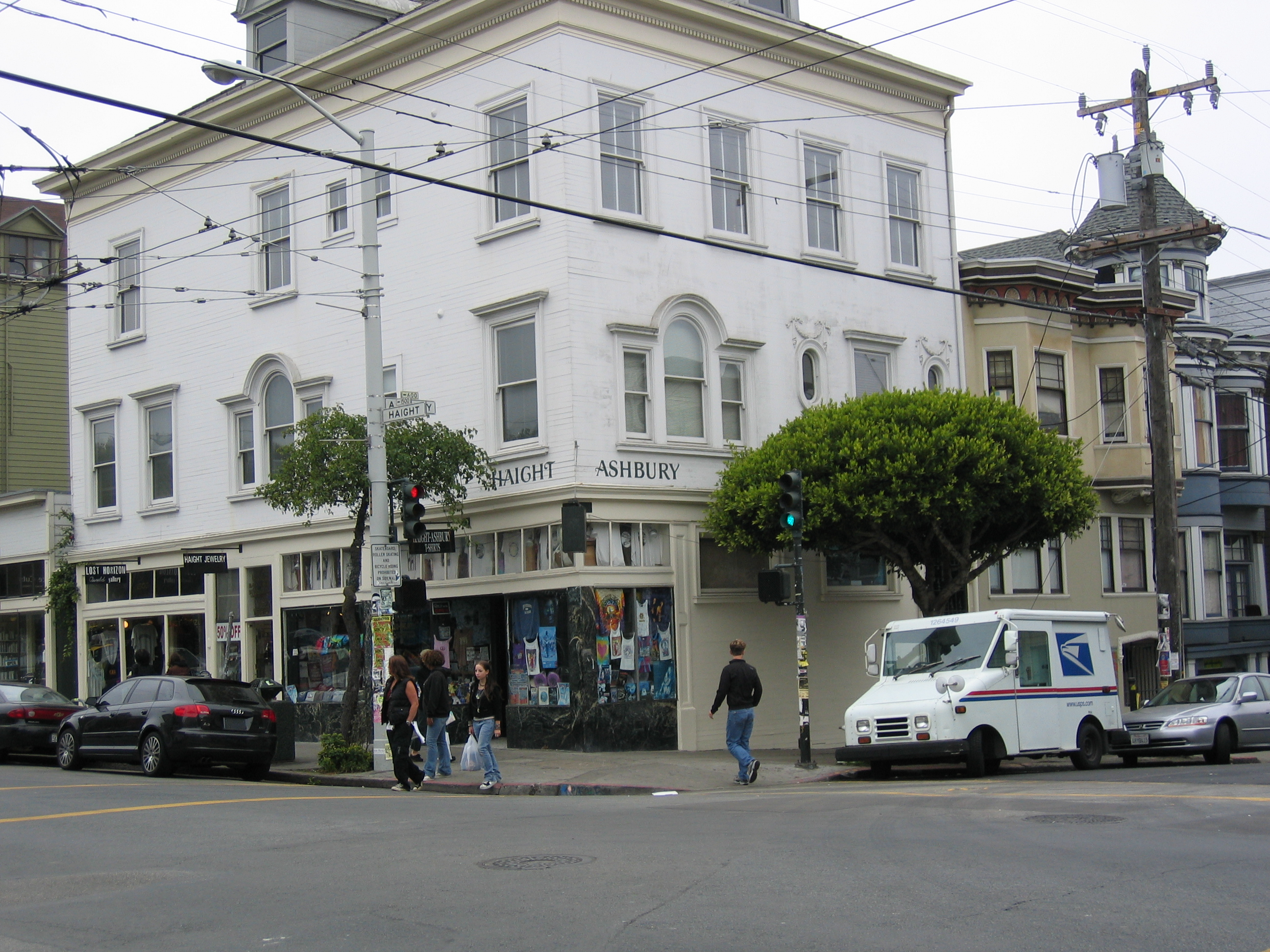 I took this picture in September, 2005. Enjoy.